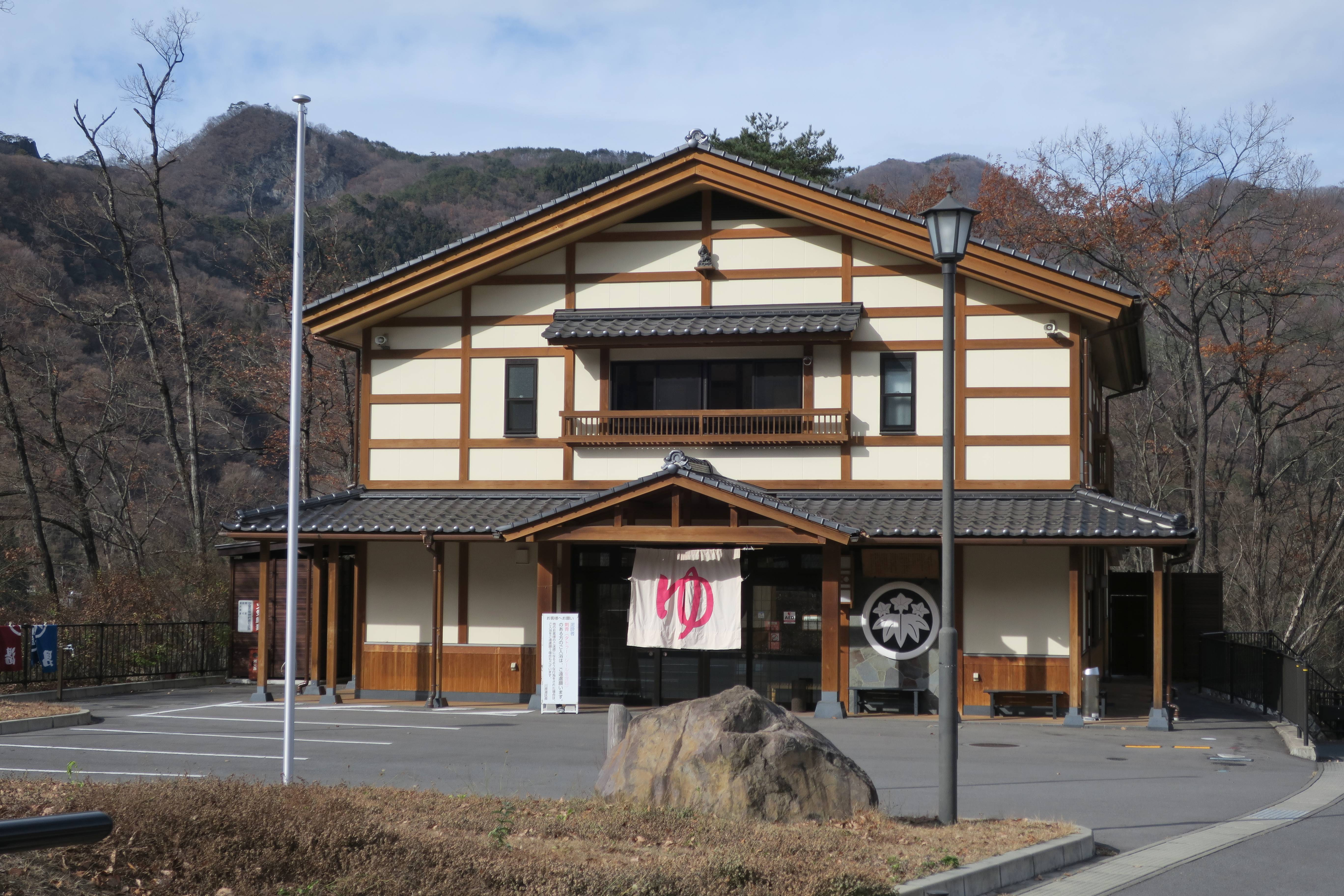 Kawarayu Onsen (Naganohara, Gunma) Ōyu.